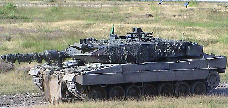 Leopard 2A5 on the ALÜ "Heidesturm 2002"